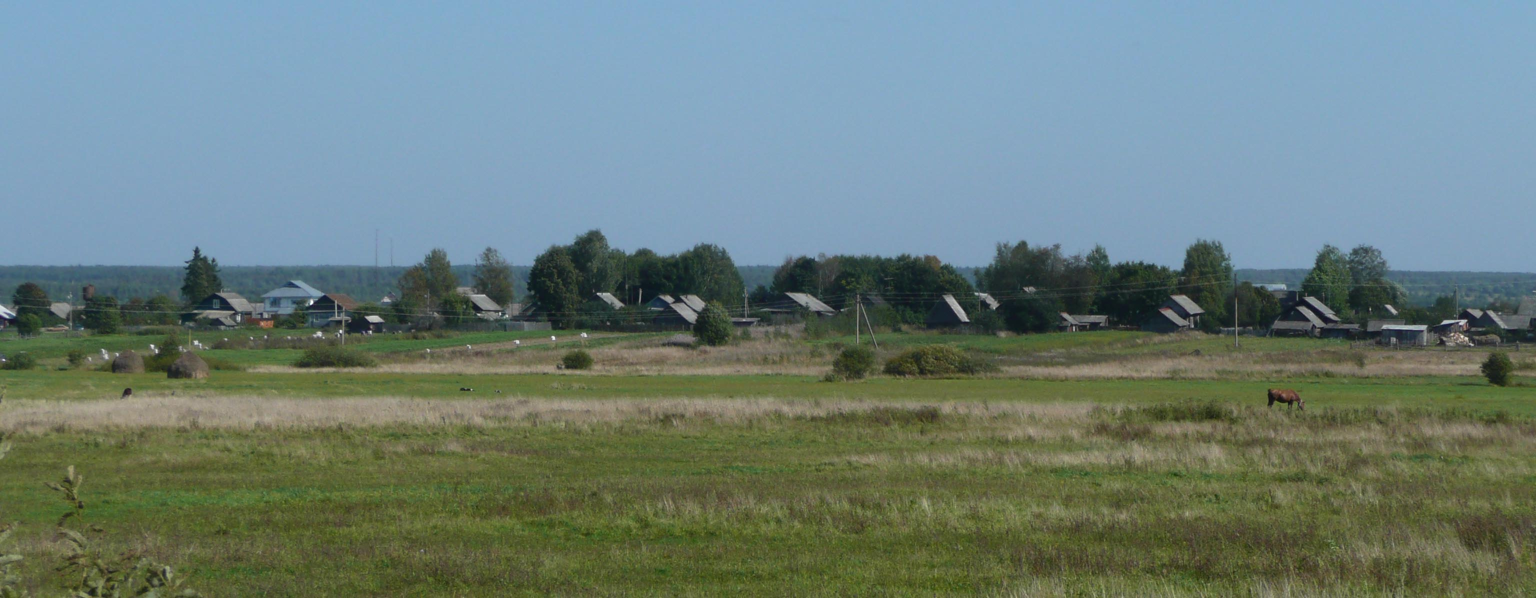 village Aleshino, Tver region, Russia